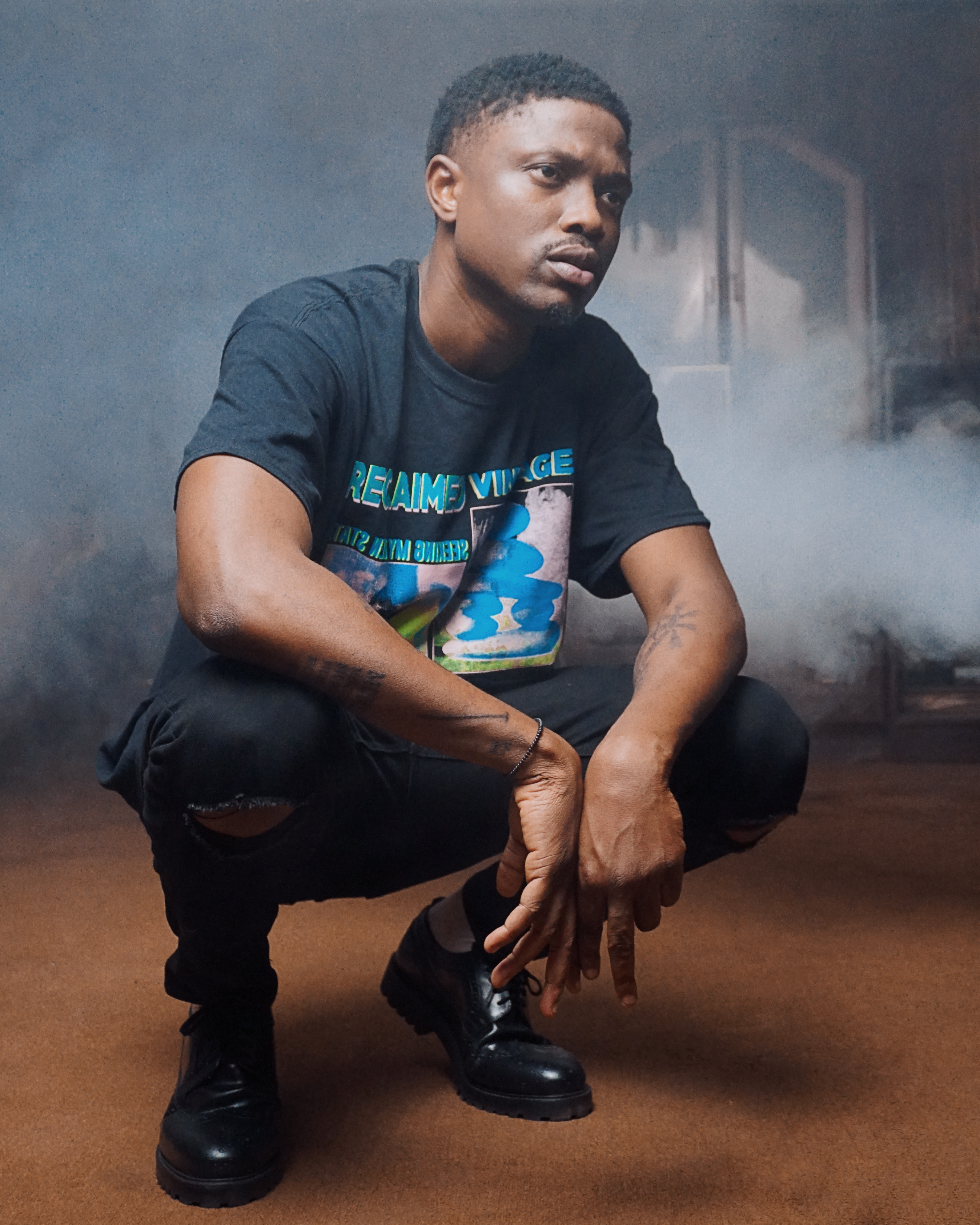 Vector at No Peace Video Shoot 2020 Directed by Talk to Ace Films.